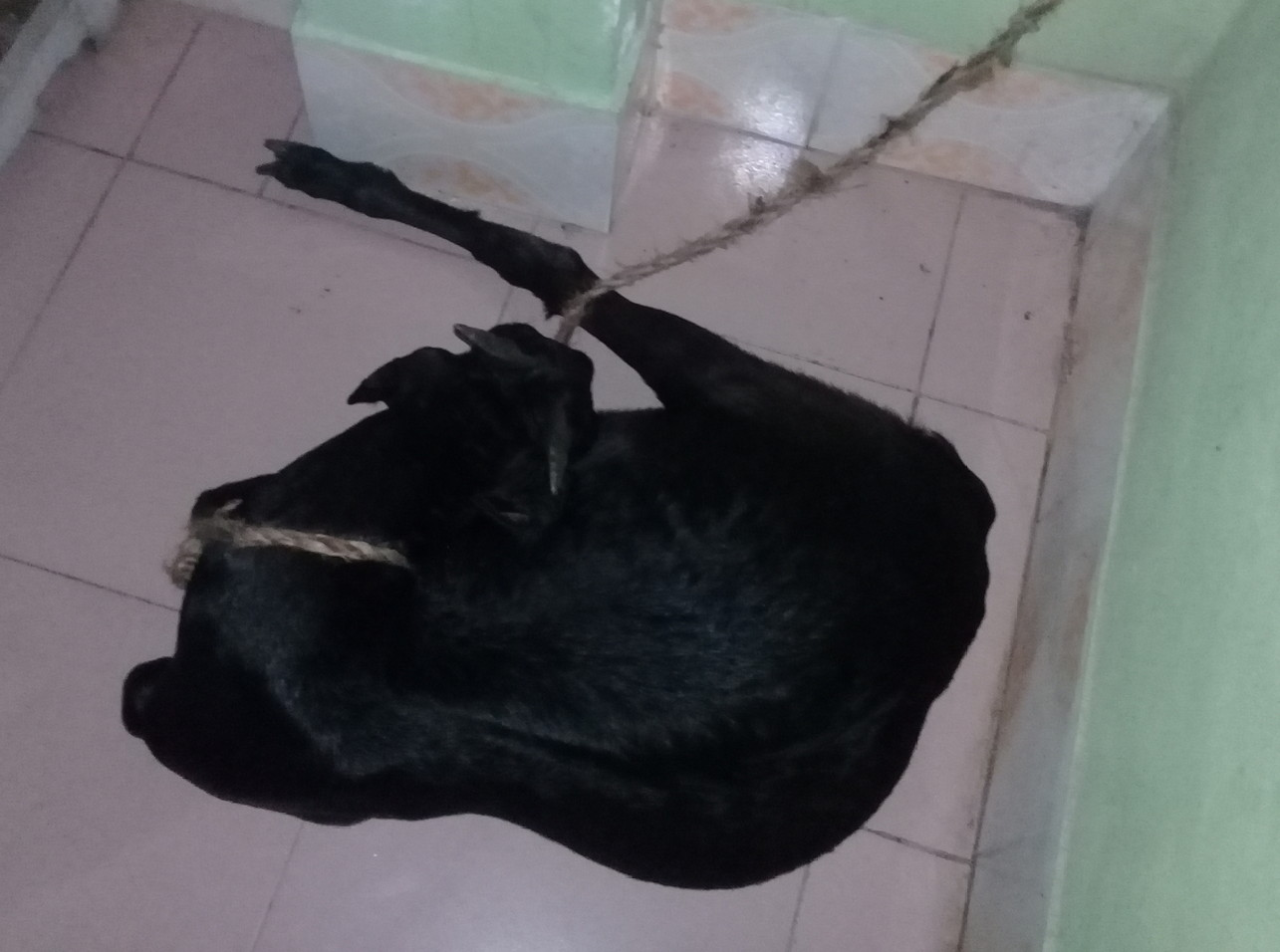 A goat is sleeping in a house of Bangladesh